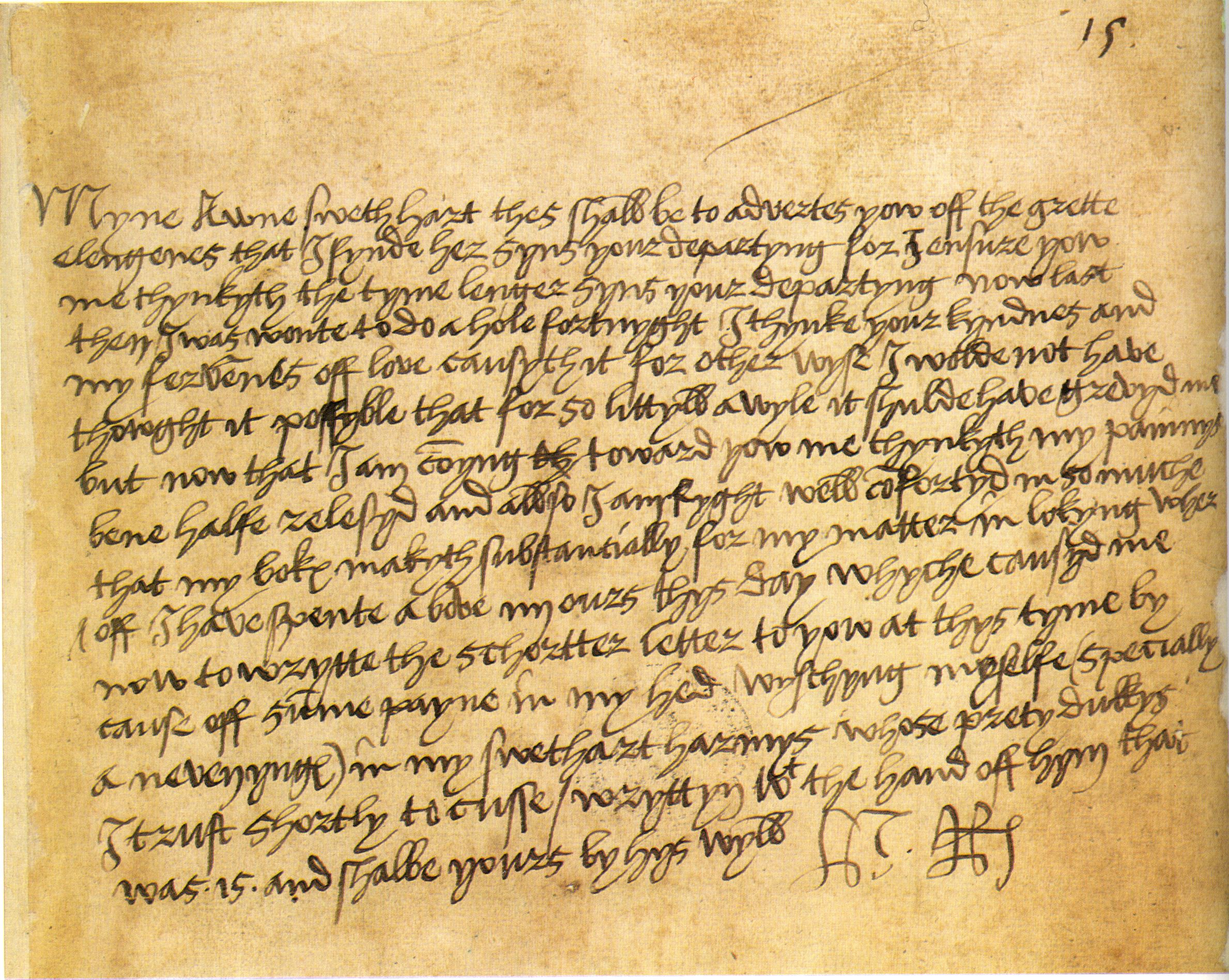 Autograph letter of king Henry VIII of England to Anne Boleyn in the letter collection of ms. Biblioteca Apostolica Vaticana, Vat. Lat. 3731A, fol. 15r.